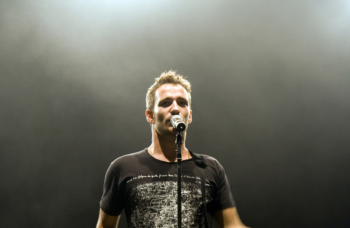 Grand Avenue concert in Winterthur (Switzerland) - Musikfestwochen